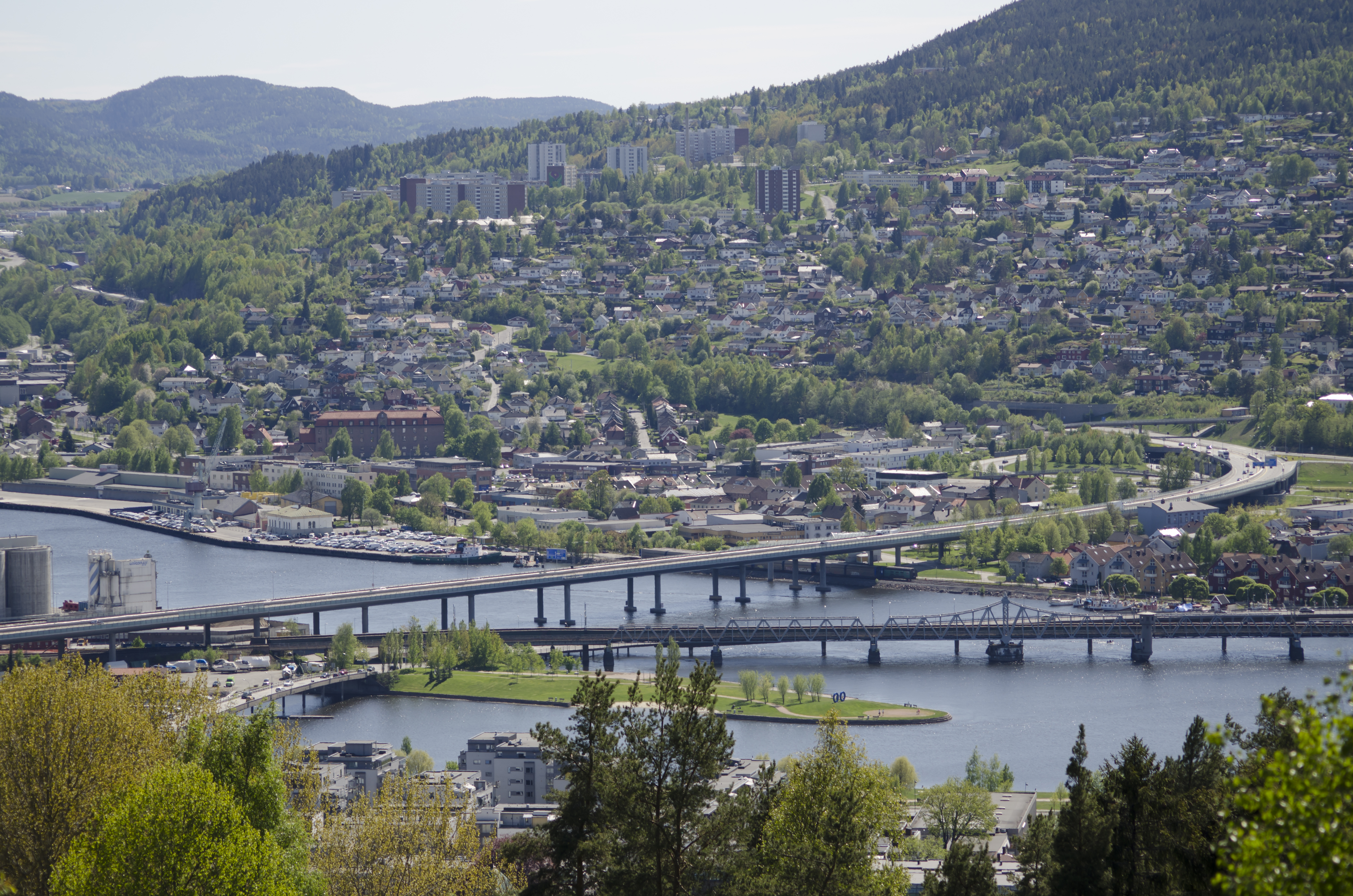 The motorway bridge in Drammen, along with the Holmenbrua rail bridge and road bridges, seen from Kloptjernveien ca. 3 km away.